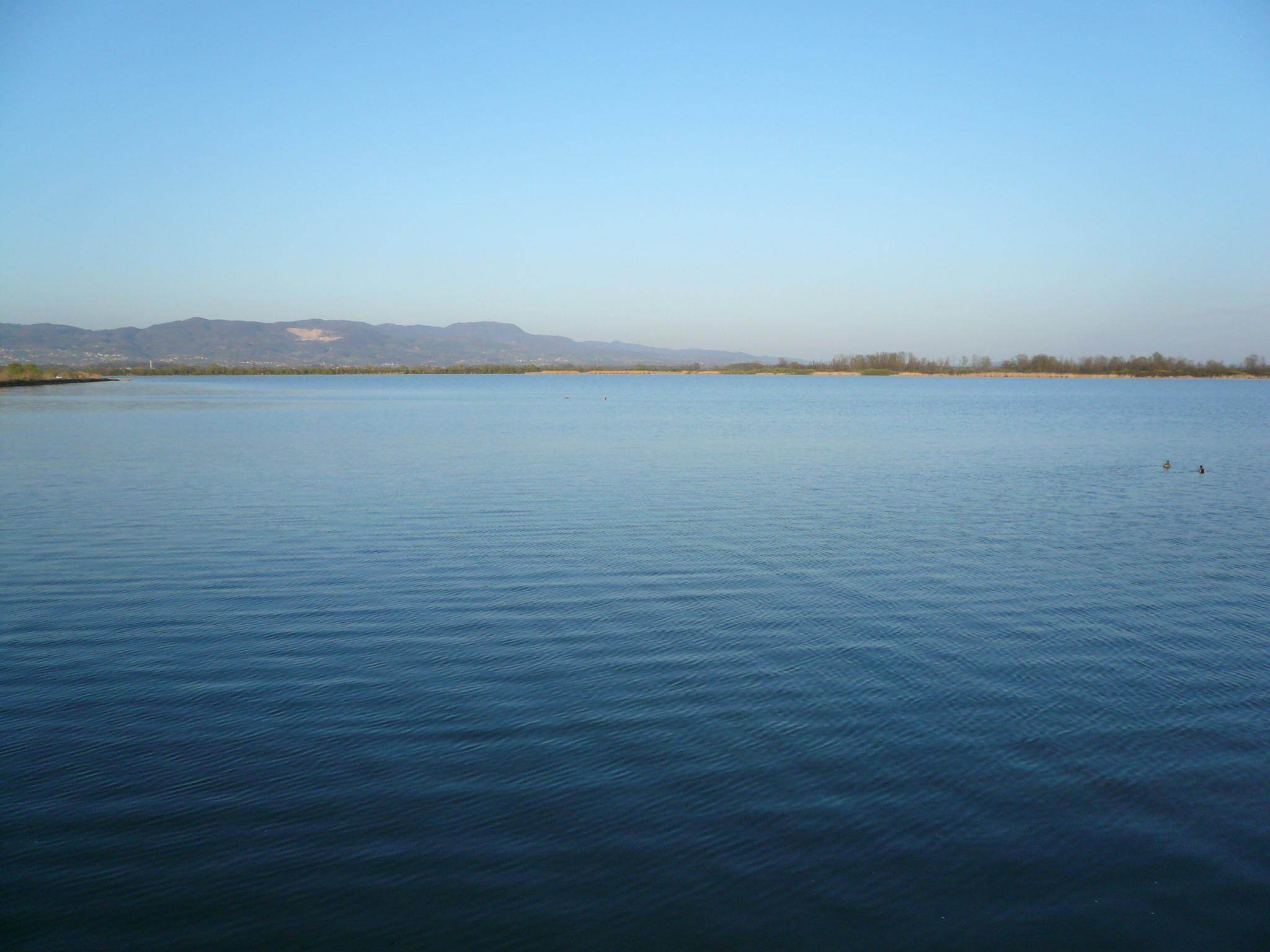 Lake Sanicani near Prijedor, Bosnia-Herzegovina, one of the biggest commercial fish farming lakes in the southern Europe